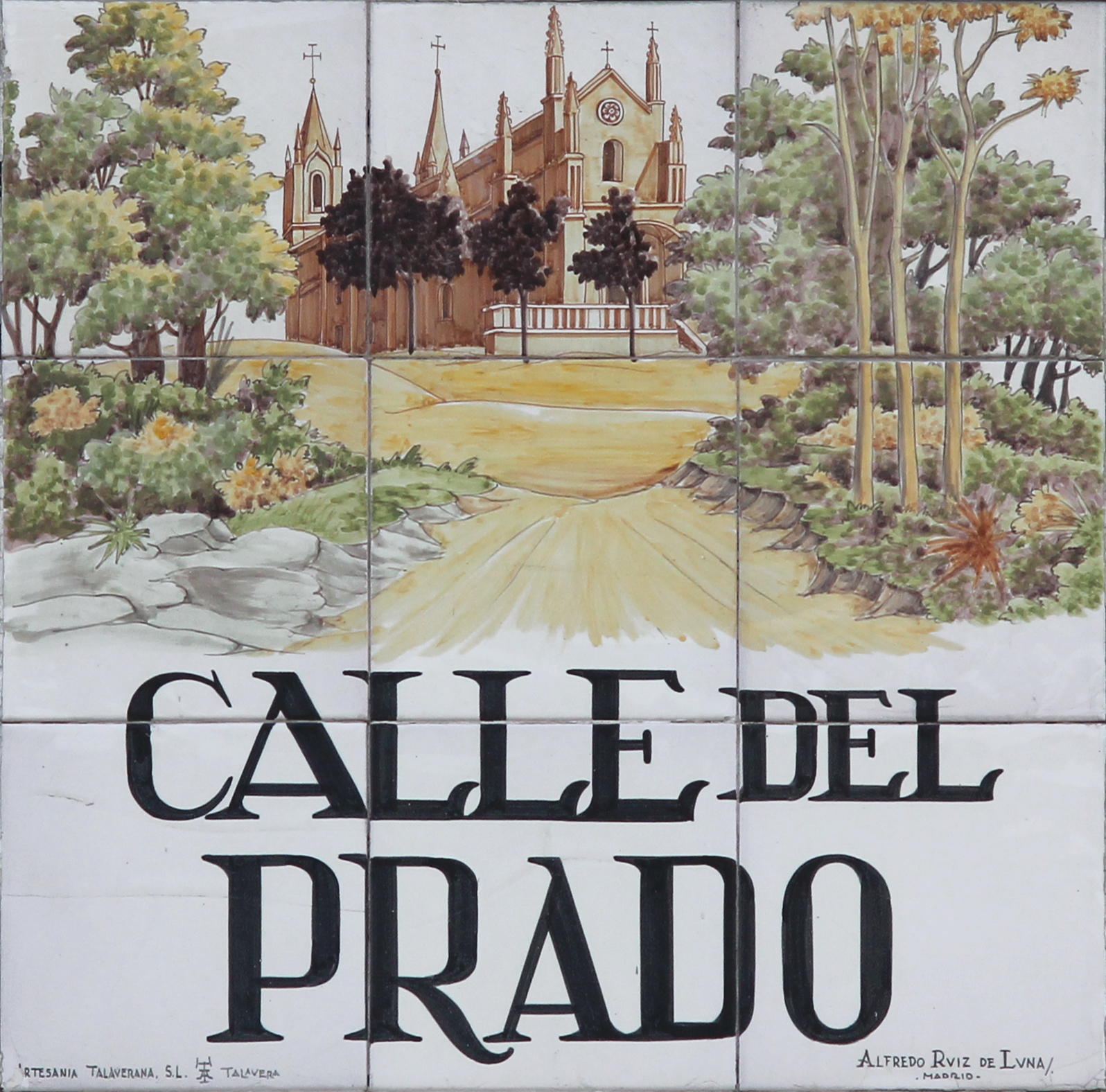 Sign of Calle del Prado (street) in Madrid (Spain).